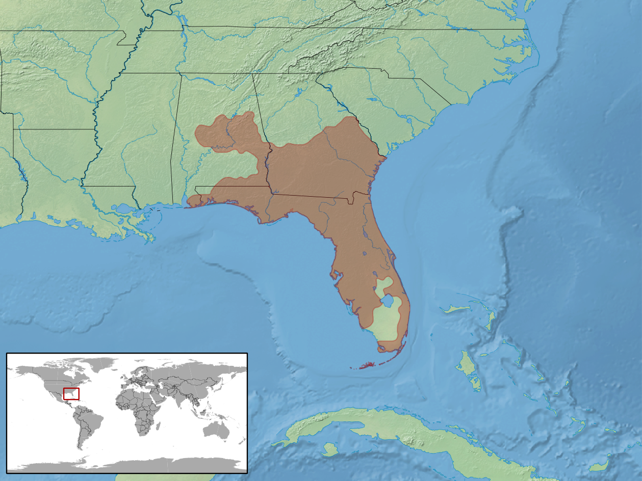 geographic distribution of Plestiodon egregius